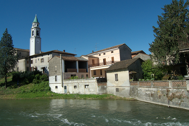 View of Cumignano sul Naviglio